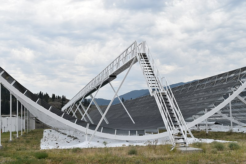 Canadian Hydrogen Intensity Mapping Experiment - wire-mesh half pipe reflector